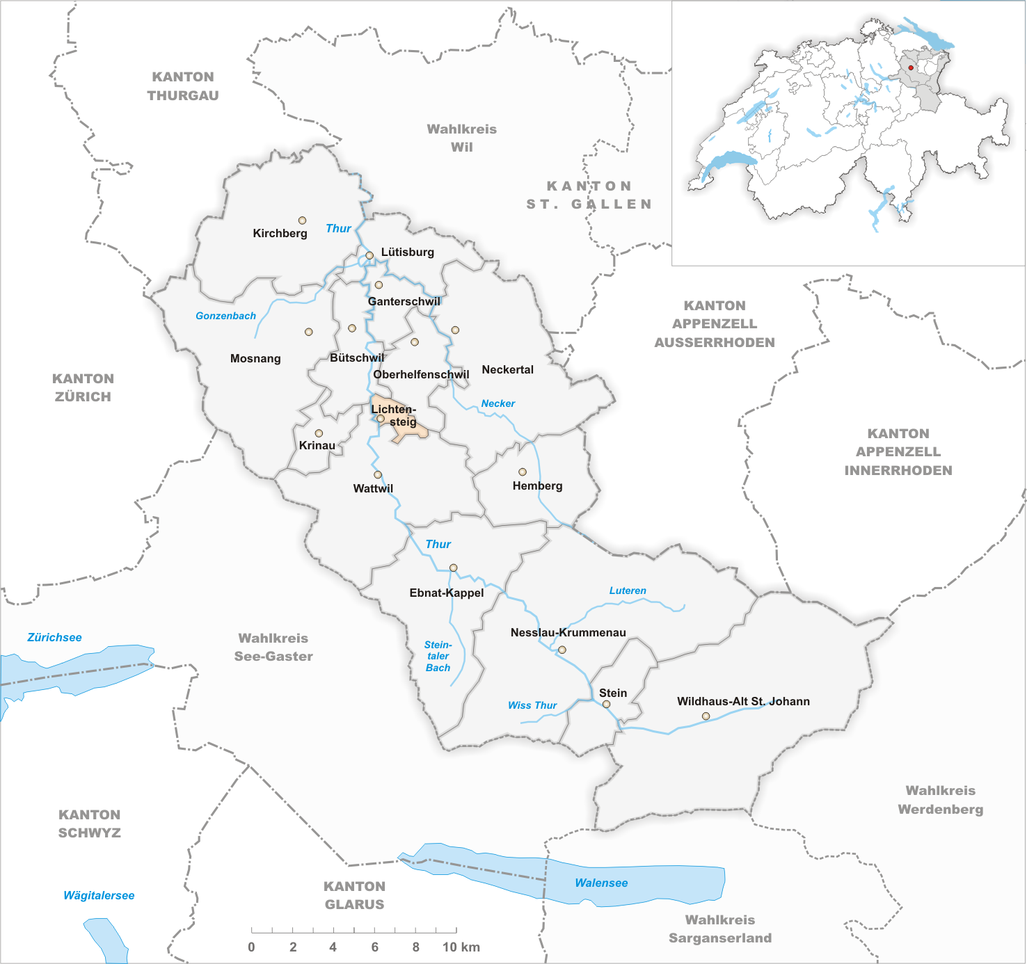 Municipality Lichtensteig